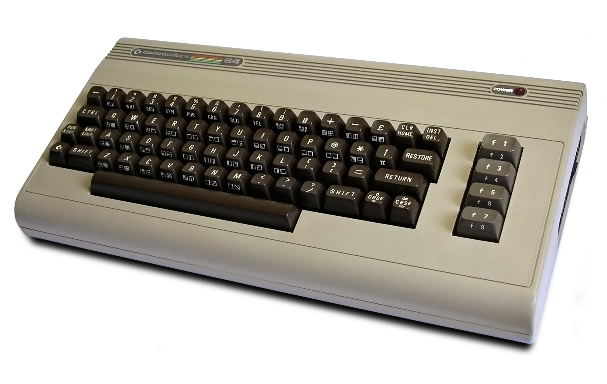 Commodore 64 computer (1982). Post processing: BG, B/C, noise, dust, spot